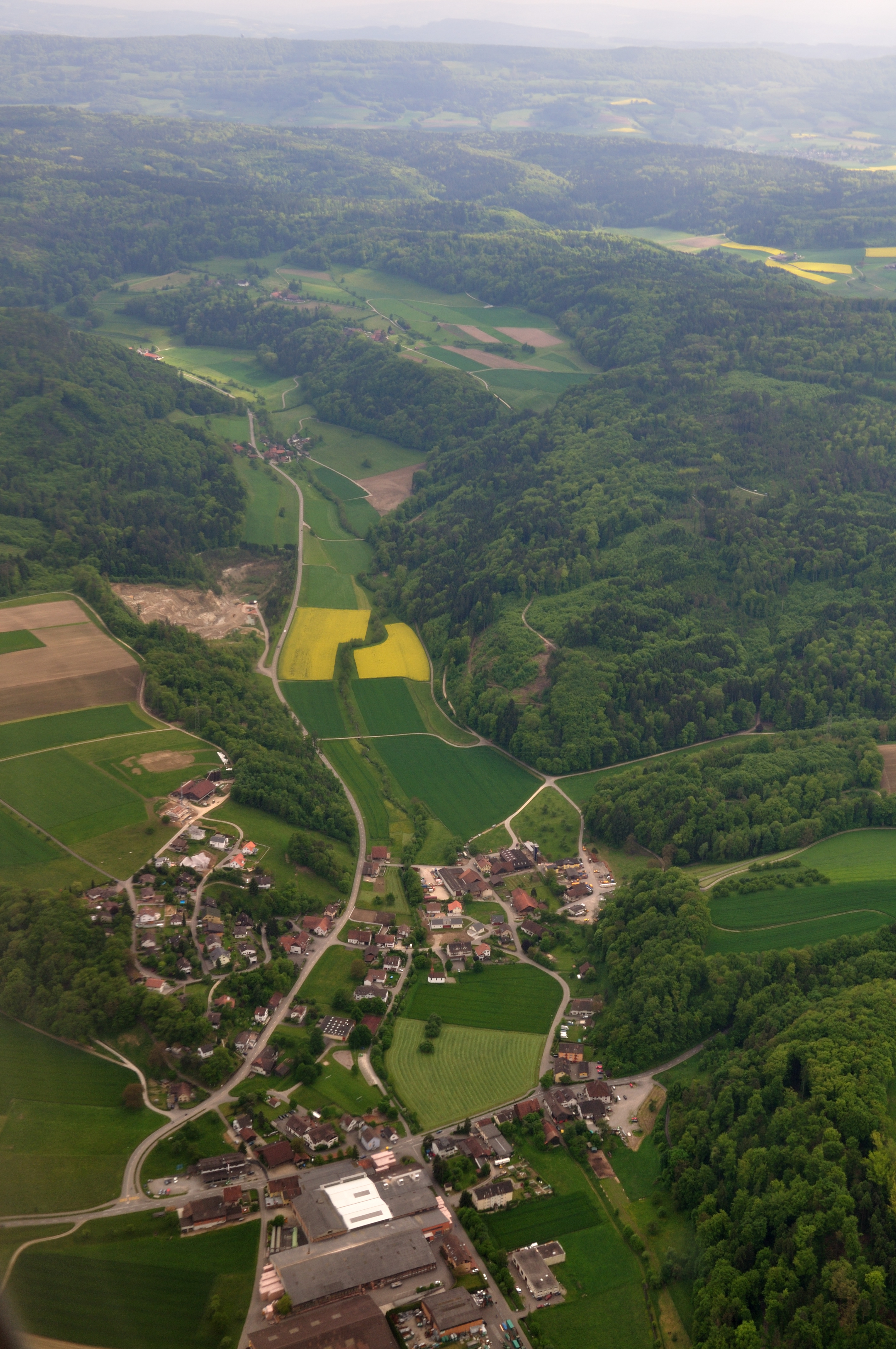 Switzerland, Aargau, aerial view of Fisibach